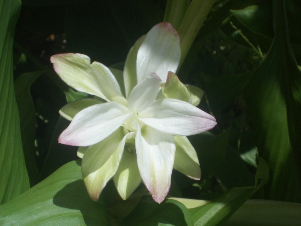 This photo was taken by myself outside of Cooktown, Queensland